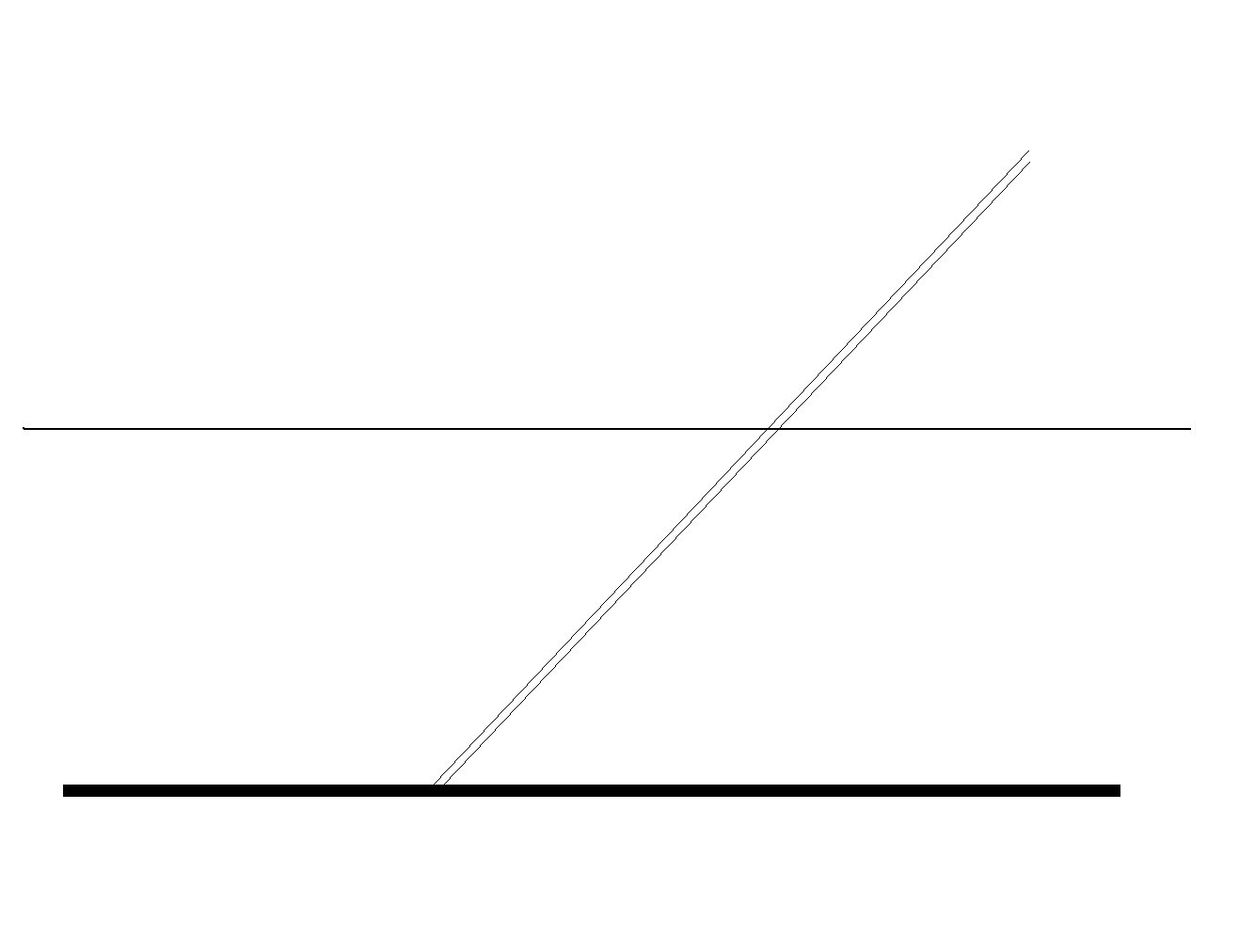 solarize prepustiť